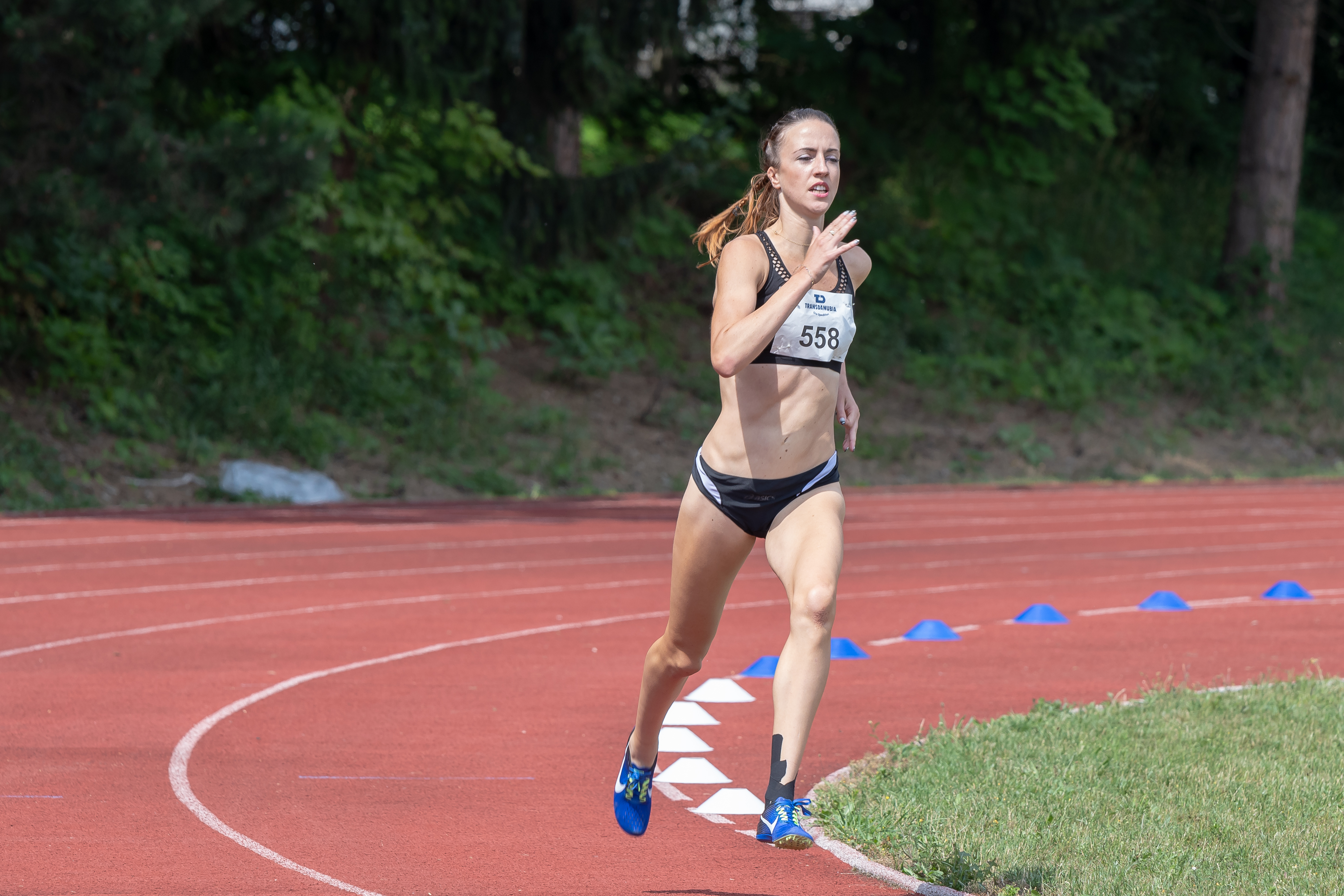 Leichtathletik Gala Linz 2018; women´s 800 m; Mezuliáníková Diana, PSK Olymp Praha (CZE)